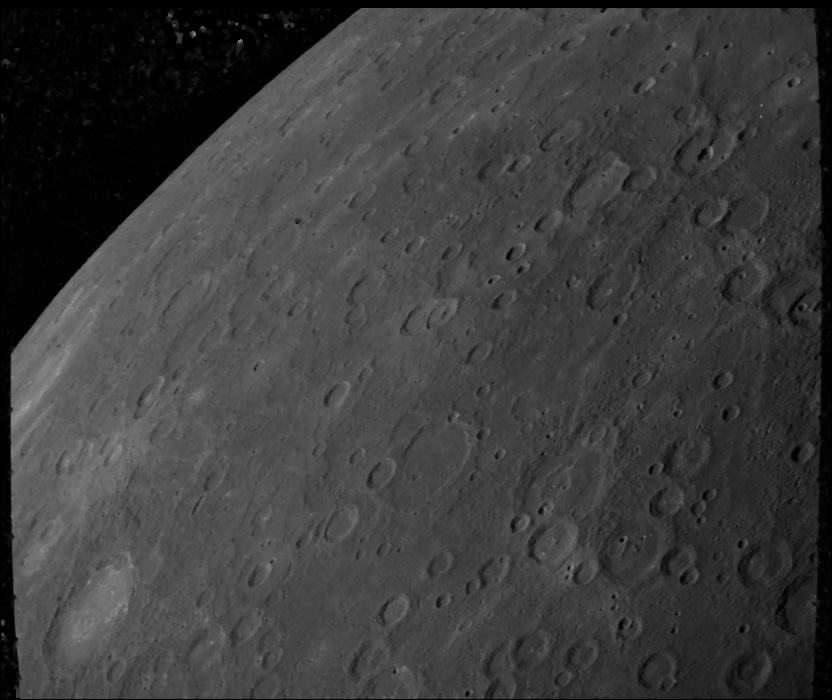 Image Number: 0027241GMT: 1974:088:17:39:38Start Time: 1974-03-29T17:39:38.367ZLatitude: -5.17° to 27.86.62° to 45.6°Longitude: 20.37° to 67.83°Resolution (meters per pixel): 1045Incidence Angle: 63.08°Emission Angle: 59.34°Phase Angle: 101.68°Lermontov crater in bottom left corner, with Proust and Bek above it. Li Po crater below center, and Sinan is to the right of it. Wren, Geddes, and Driscoll are in upper right. Antoniadi Dorsum cuts across Geddes. Near the horizon are Kuan Han-Ch'ing, Velázquez, and part of Praxiteles.